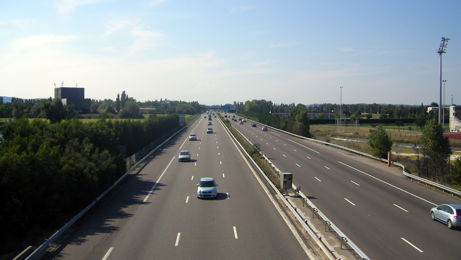 D976 crossing A7 autoroute near Orange